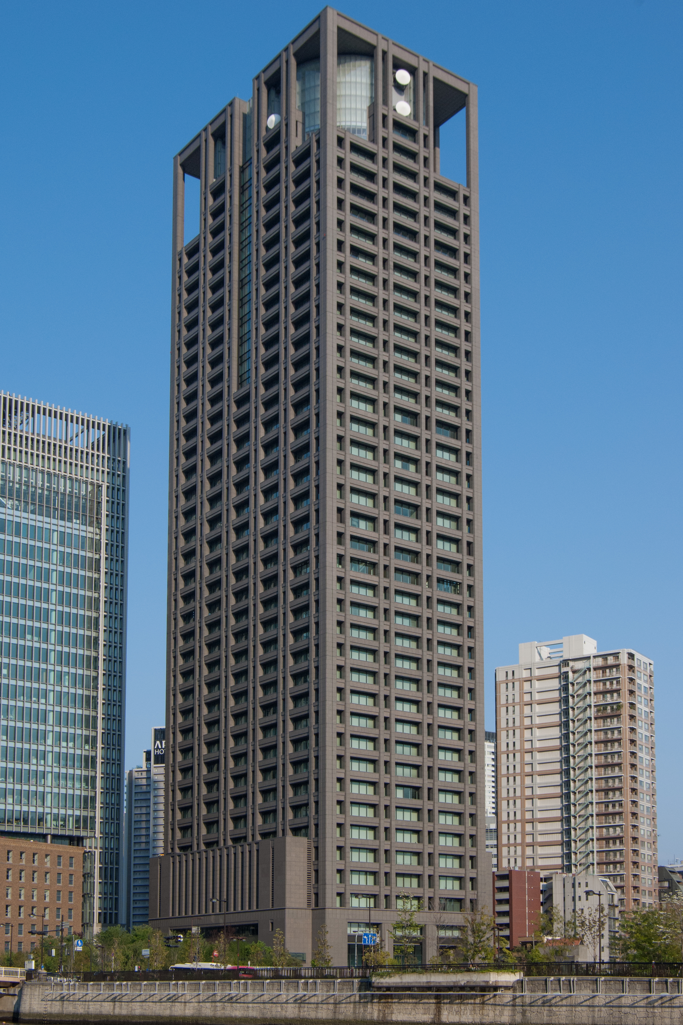 Photograph of the northwest view of KEPCO Building in Kita-ku, Osaka, Osaka Prefecture, Japan.